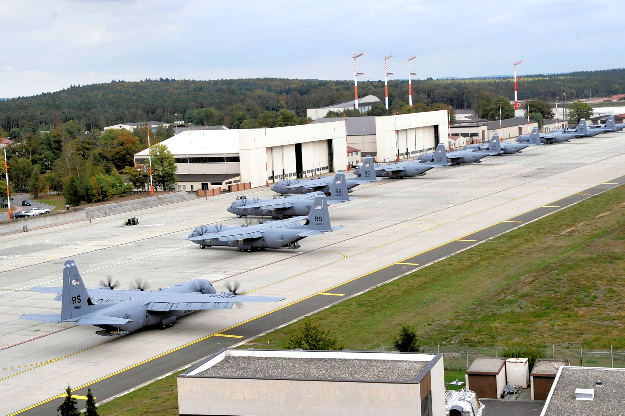 Ten C-130J Super Hercules return home after supporting Exercise Bayonet Resolve, Ramstein Air Base, Germany, Oct. 5, 2011. This joint exercise with U.S. Army members highlights Ramstein's training, war readiness, and combat delivery capabilities. (U.S. Air Force photo by Staff Sgt. Tyrona Lawson)